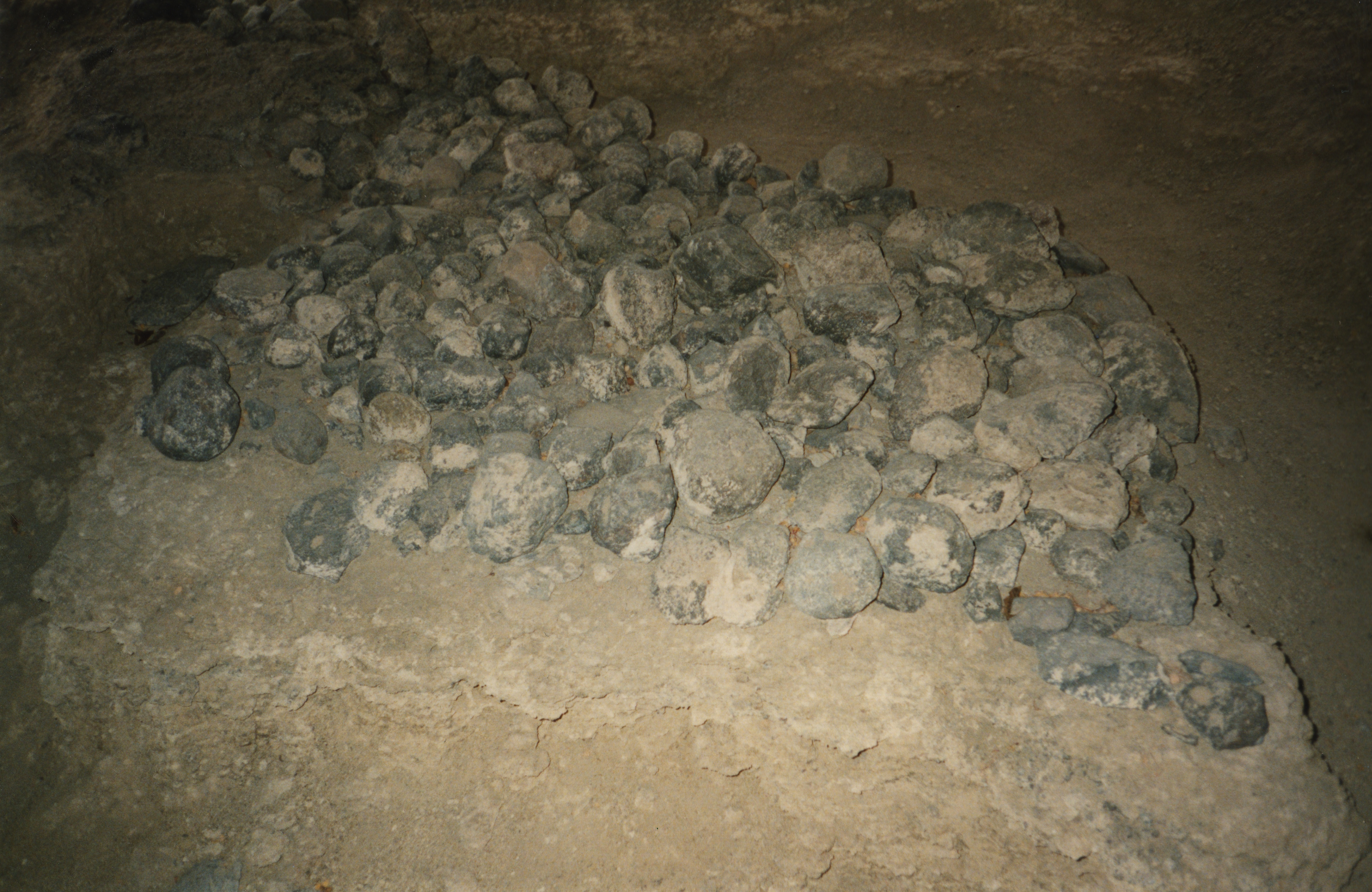 Prehistoric tools at the archaeological site of Olorgesailie in Kenya, 1993